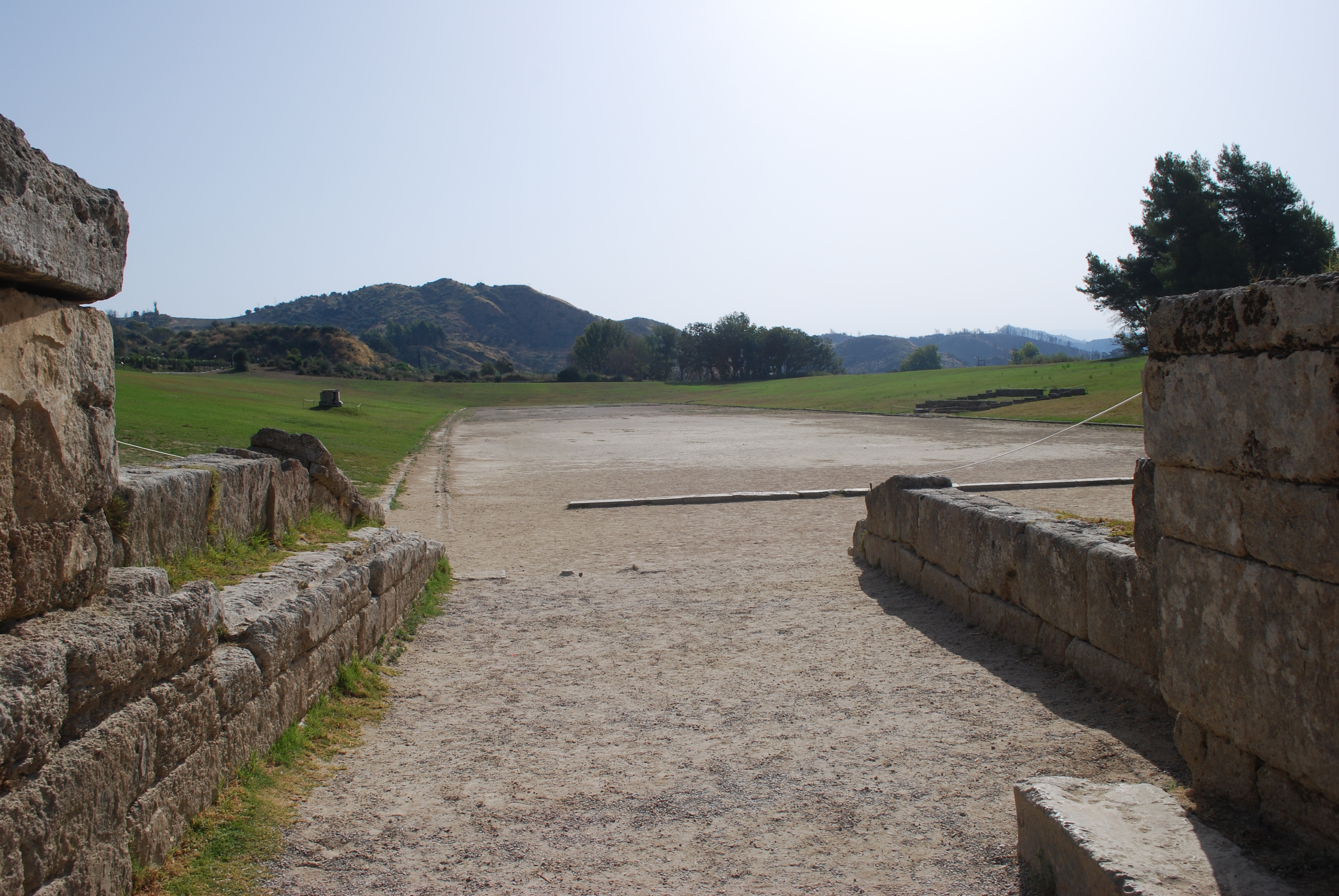 Olympia : stadium.